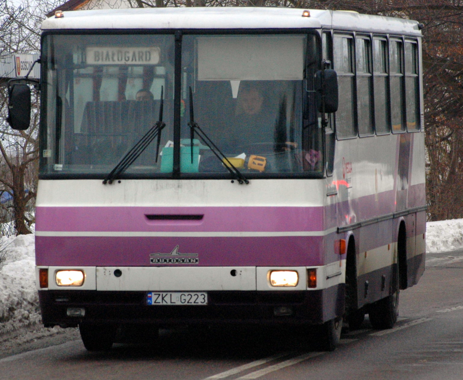 Autosan H10-10 bus (reg. ZKL G223) in Gościno, West Pomeranian Voivodeship, Poland. Veolia Transport, Oddział Kołobrzeg operator.